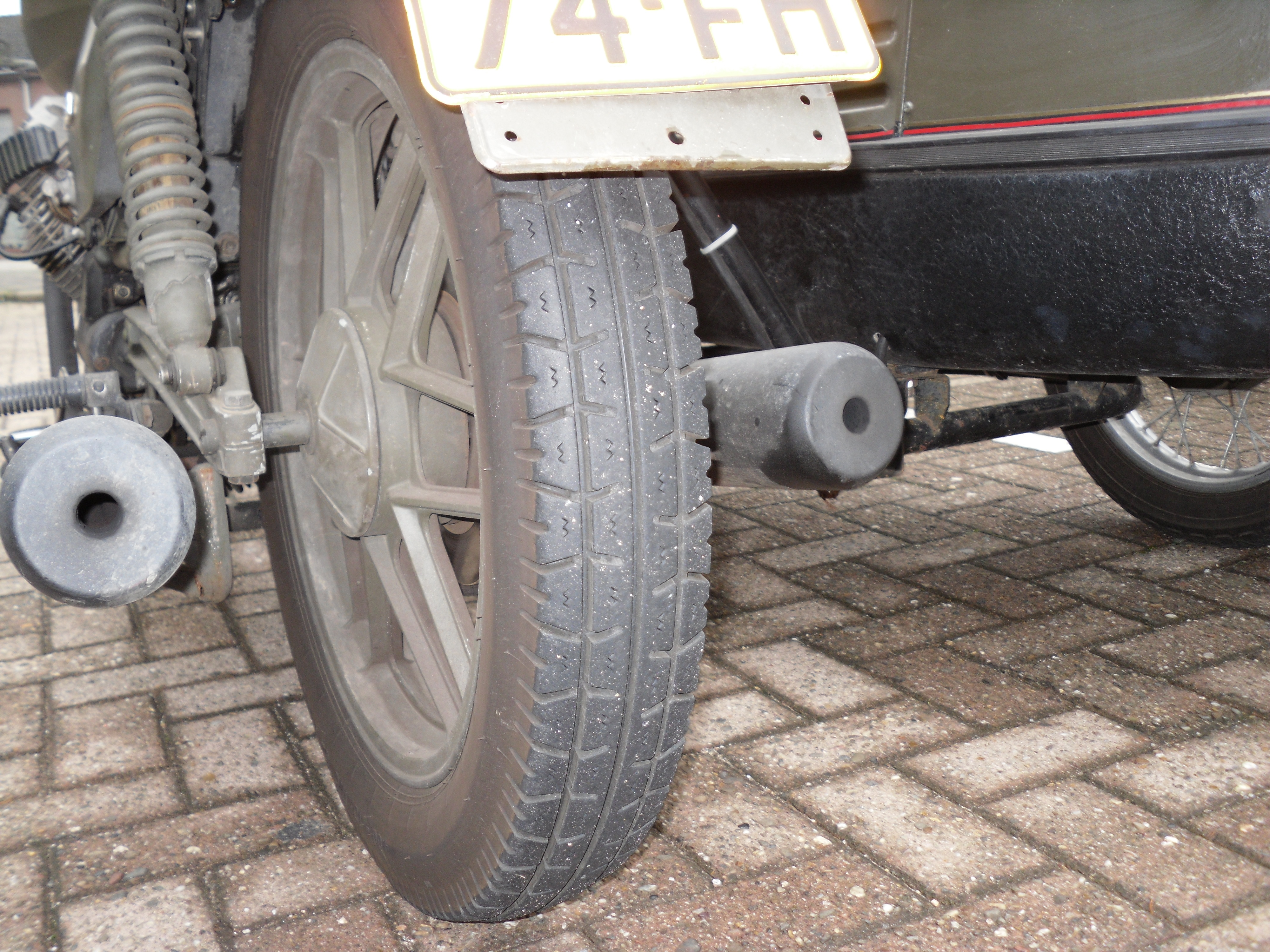 Side car motorcycle block tyre